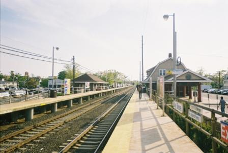 Westbound view of the two station houses of Bay Shore (LIRR station) in Bay Shore, New York.